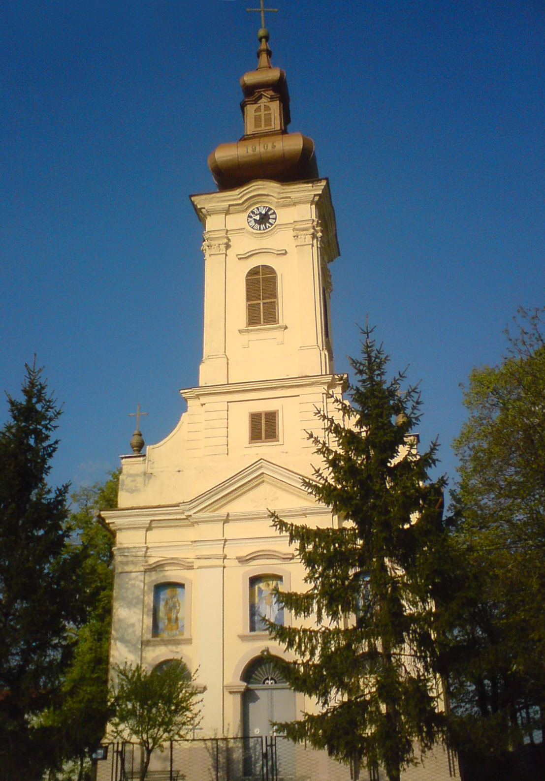 Izbište-Eastern Orthodox Church